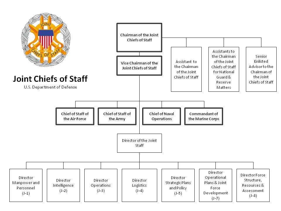 The Joint Staff Organizational Chart as of October 2011